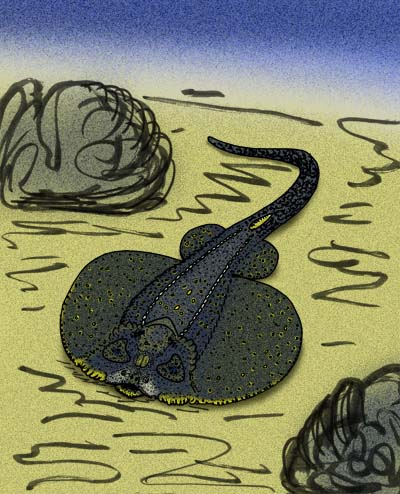 Reconstruction of the rhenanid placoderm, Jagorina pandora, of the Upper Devonian.